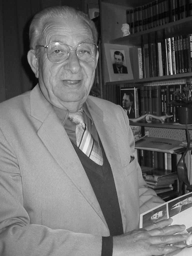 Boris Stojcev